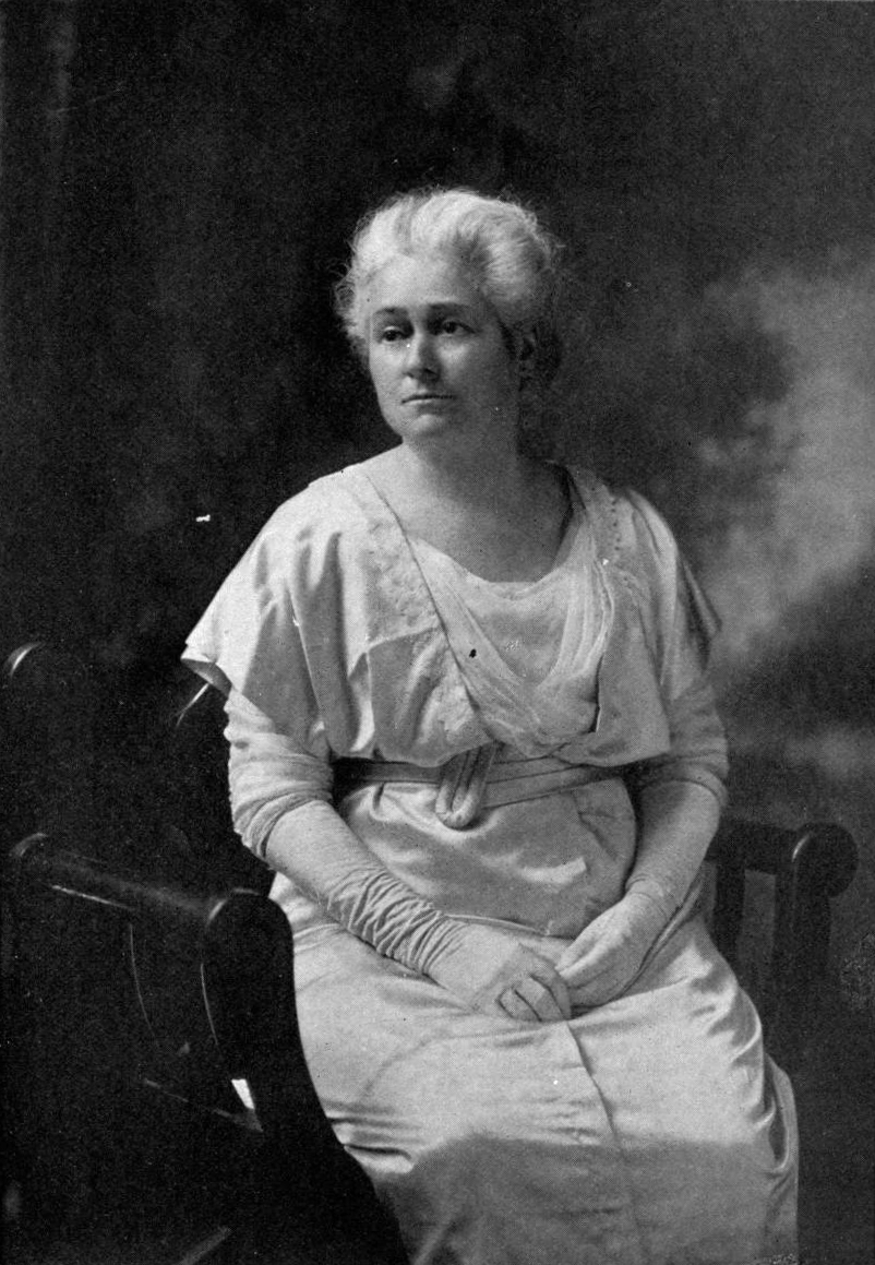 Florence Merriam Bailey